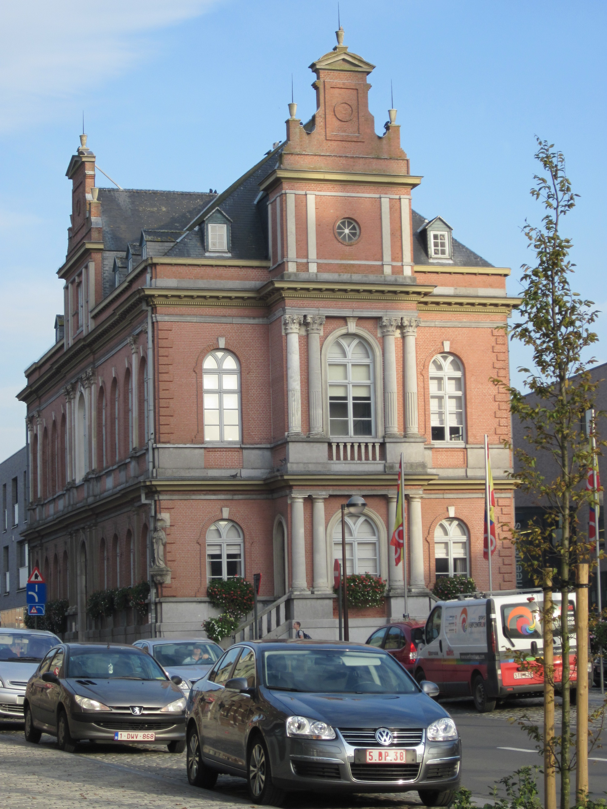 Town hall of Hooglede, Belgium